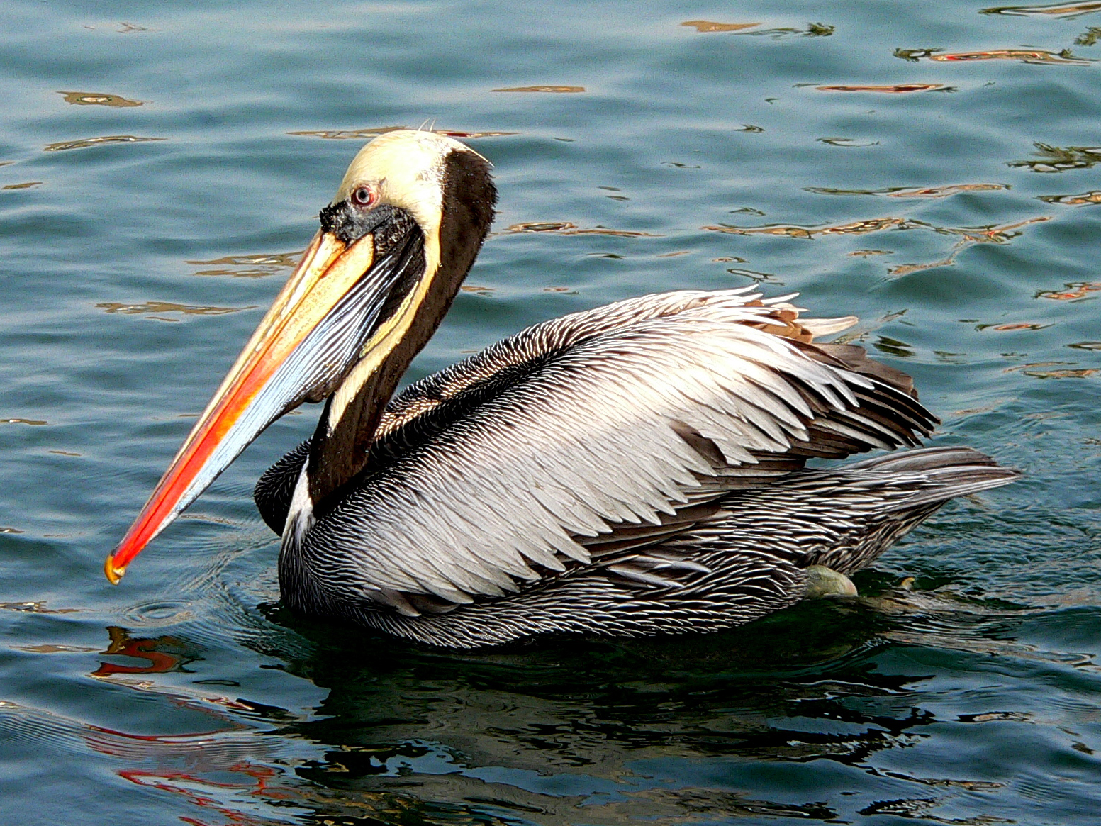 A Peruvian Pelican swimming in the sea near Lima, Pucusana (district), Peru.